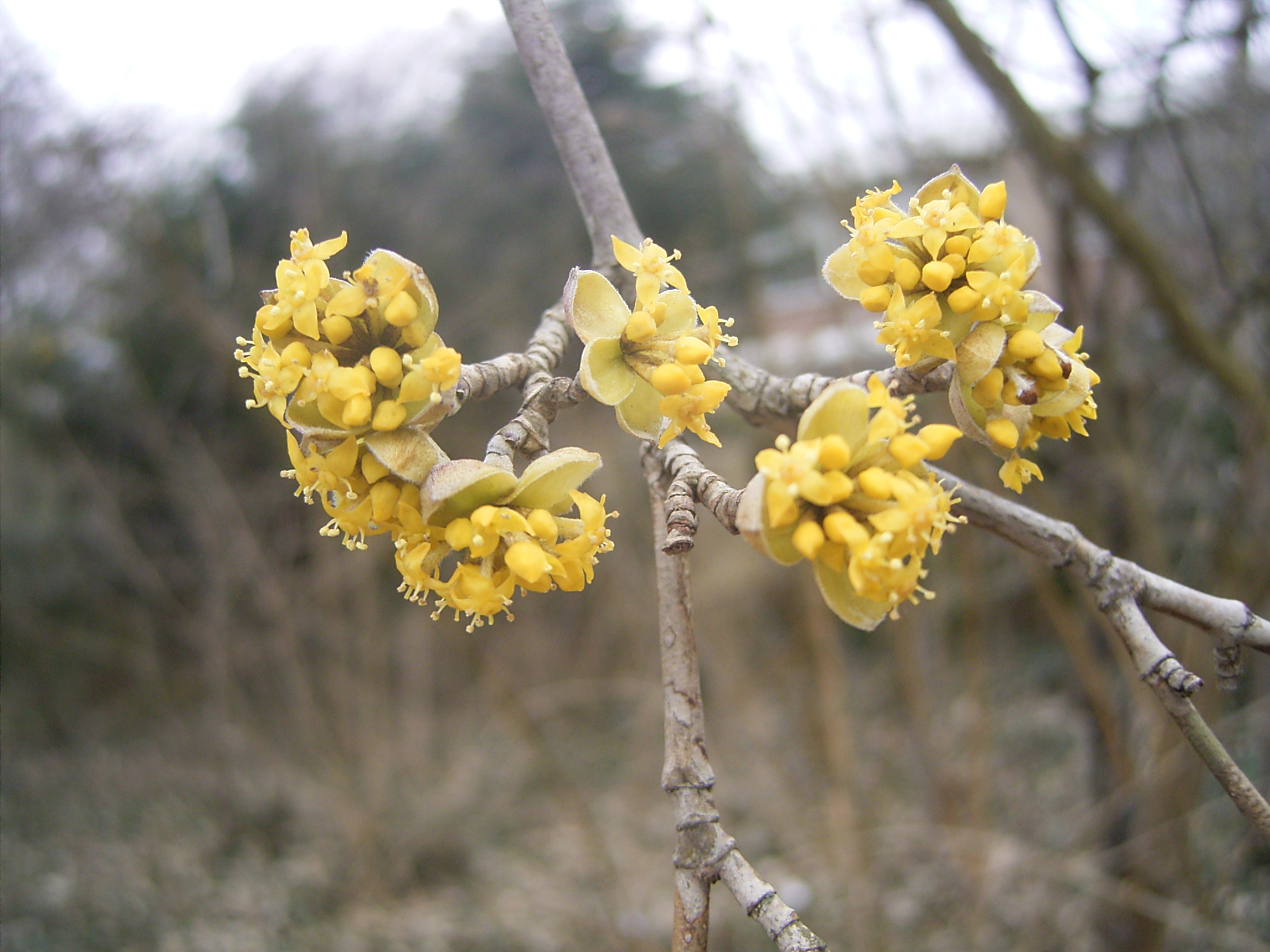 Deze foto toont de ontluikende bloemknoppen van de Gele kornoelje. Ik nam de foto in de Kersengaarde in Den Haag. This photo shows the flowers of cornus mas creeping out of their flower buds. I took the photo in The Hague, Netherlands.